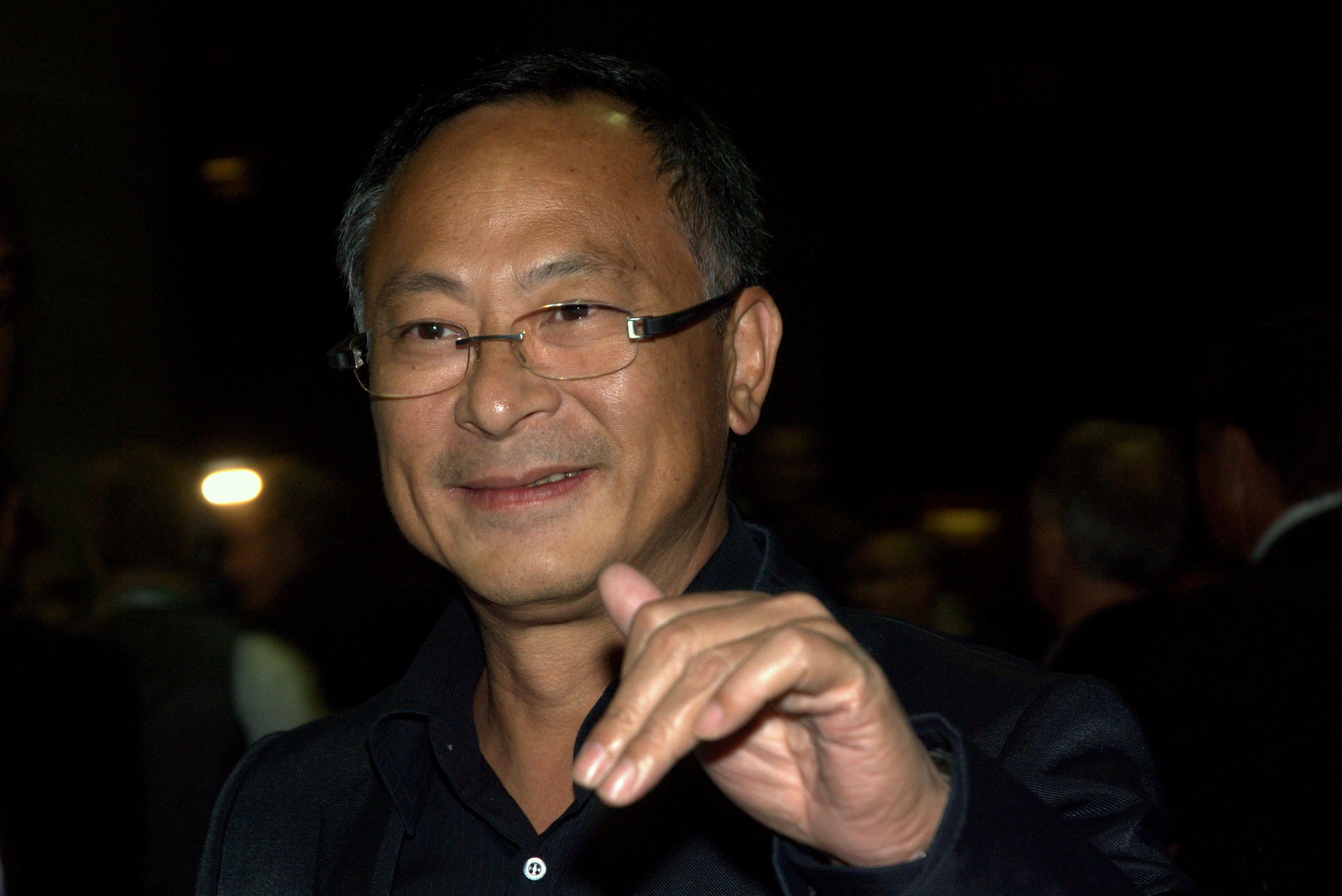 Chinese director Johnnie To Kei-Fung at the premiere of Vengeance at the Ryerson Theatre - Toronto International Film Festival (TIFF) - September 15, 2009